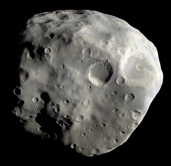 The Cassini spacecraft's close flyby of Epimetheus in December 2007 returned detailed images of the moon's south polar region. The view shows what might be the remains of a large impact crater covering most of this face, and which could be responsible for the somewhat flattened shape of the southern part of Epimetheus (116 kilometers, or 72 miles across) seen previously at much lower resolution. The image also shows two terrain types: darker, smoother areas, and brighter, slightly more yellowish, fractured terrain. One interpretation of this image is that the darker material evidently moves down slopes, and probably has a lower ice content than the brighter material, which appears more like "bedrock." Nonetheless, materials in both terrains are likely to be rich in water ice. The images that were used to create this enhanced color view were taken with the Cassini spacecraft narrow-angle camera on Dec. 3, 2007. The views were obtained at a distance of approximately 37,400 kilometers (23,000 miles) from Epimetheus and at a Sun-Epimetheus-spacecraft, or phase, angle of 65 degrees. Image scale is 224 meters (735 feet) per pixel. The Cassini–Huygens mission is a cooperative project of NASA, the European Space Agency and the Italian Space Agency. The Jet Propulsion Laboratory, a division of the California Institute of Technology in Pasadena, manages the mission for NASA's Science Mission Directorate, Washington, D.C. The Cassini orbiter and its two onboard cameras were designed, developed and assembled at JPL. The imaging operations center is based at the Space Science Institute in Boulder, Colo. For more information about the Cassini–Huygens mission visit The Cassini imaging team homepage is at The NASA image has been cropped.